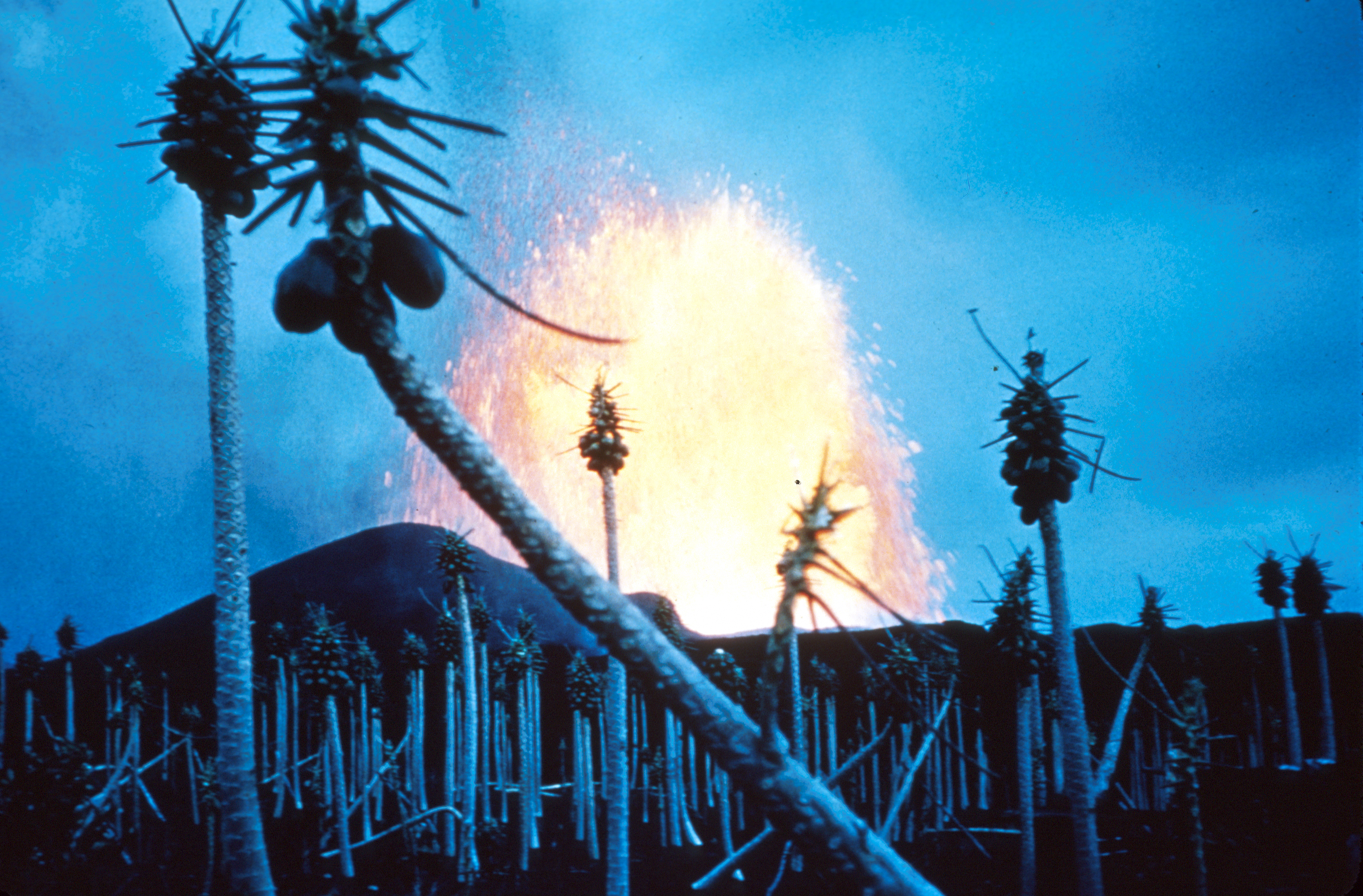 Lava fountains and papaya at Kapoho, Hawaii, United States